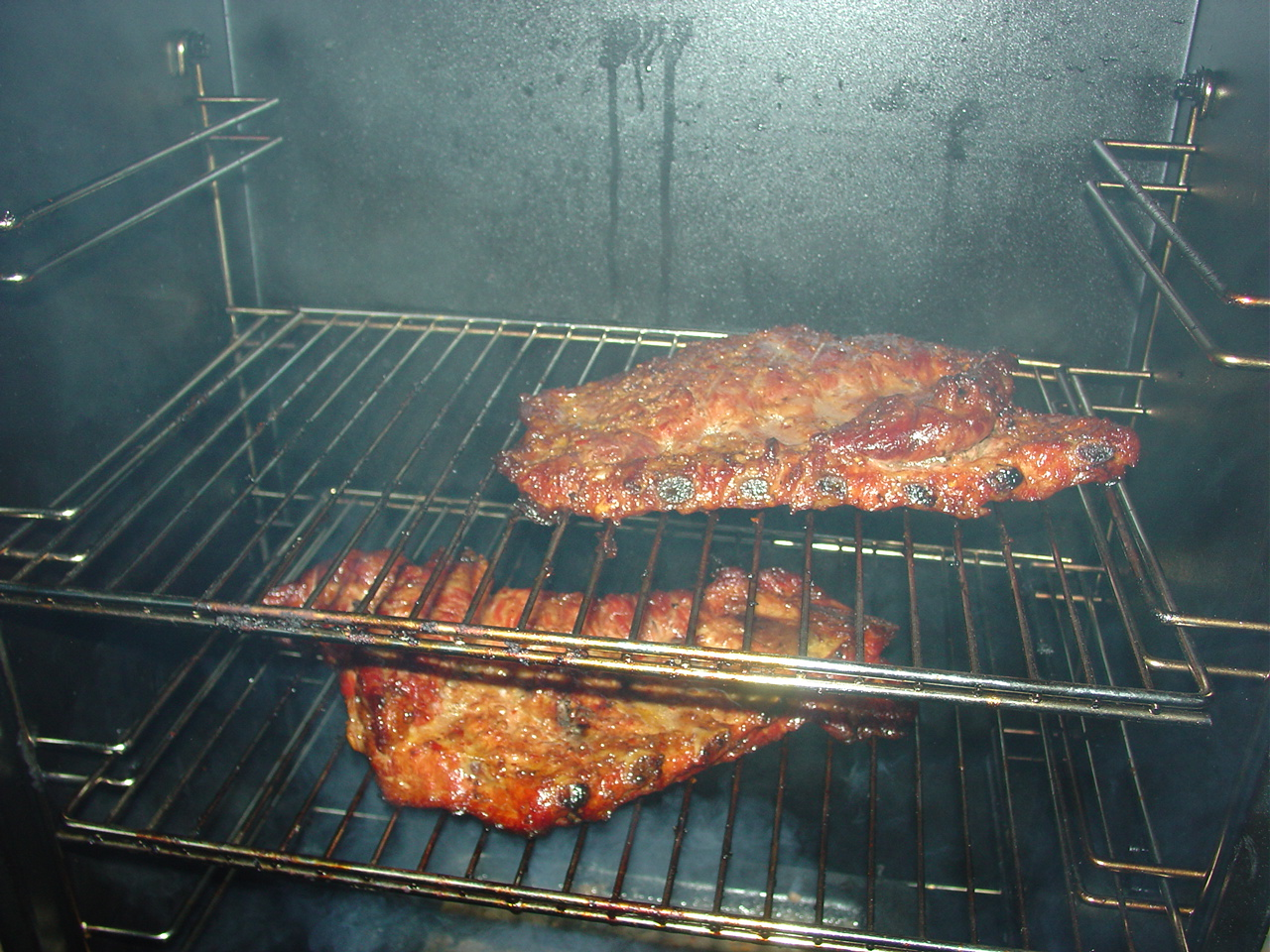 Pork ribs being smoked